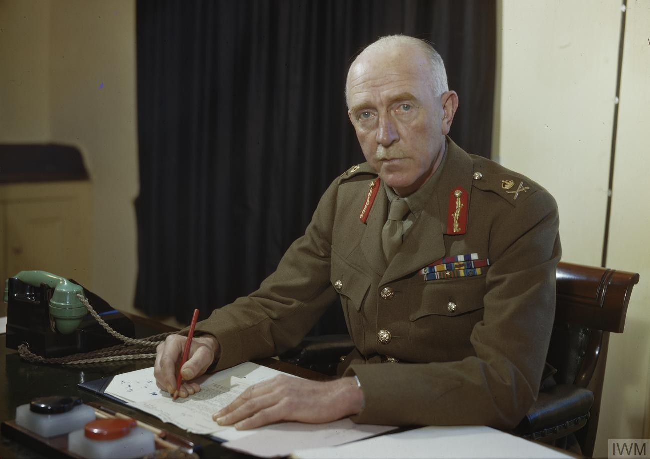 Lieutenant General Sir Harold Franklyn KCB DSO MC, Commander in Chief Home Forces.